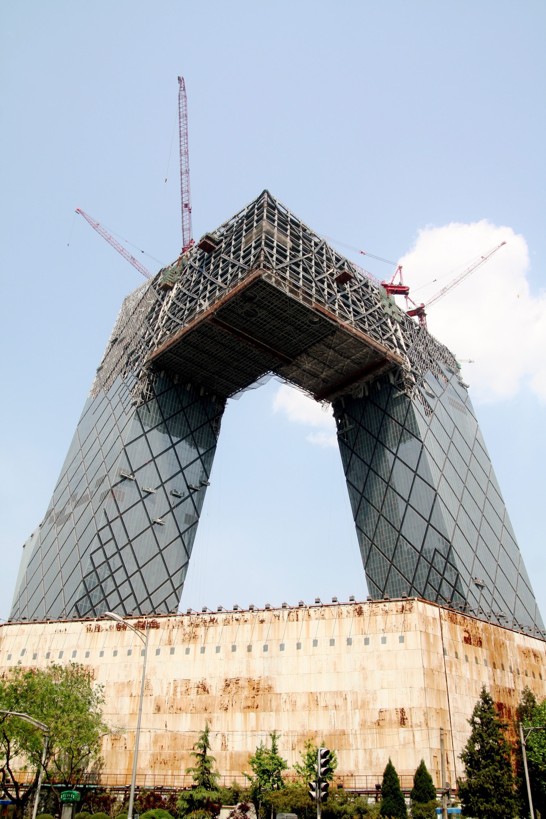 CCTV Building in Beijing, China, April 2008